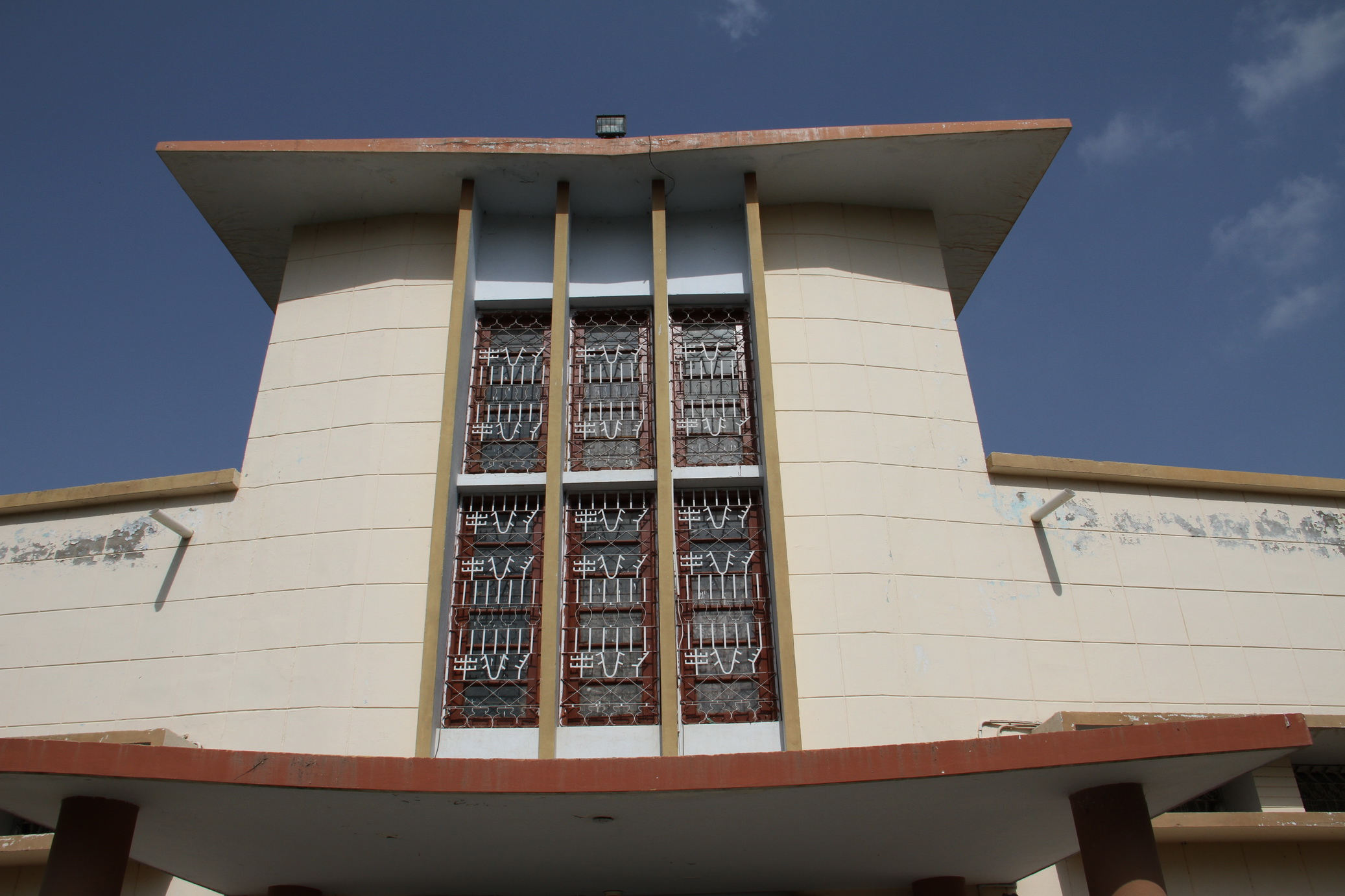 Archaeological Museum, Harappa This is a photo of a monument in Pakistan identified as the PB-138